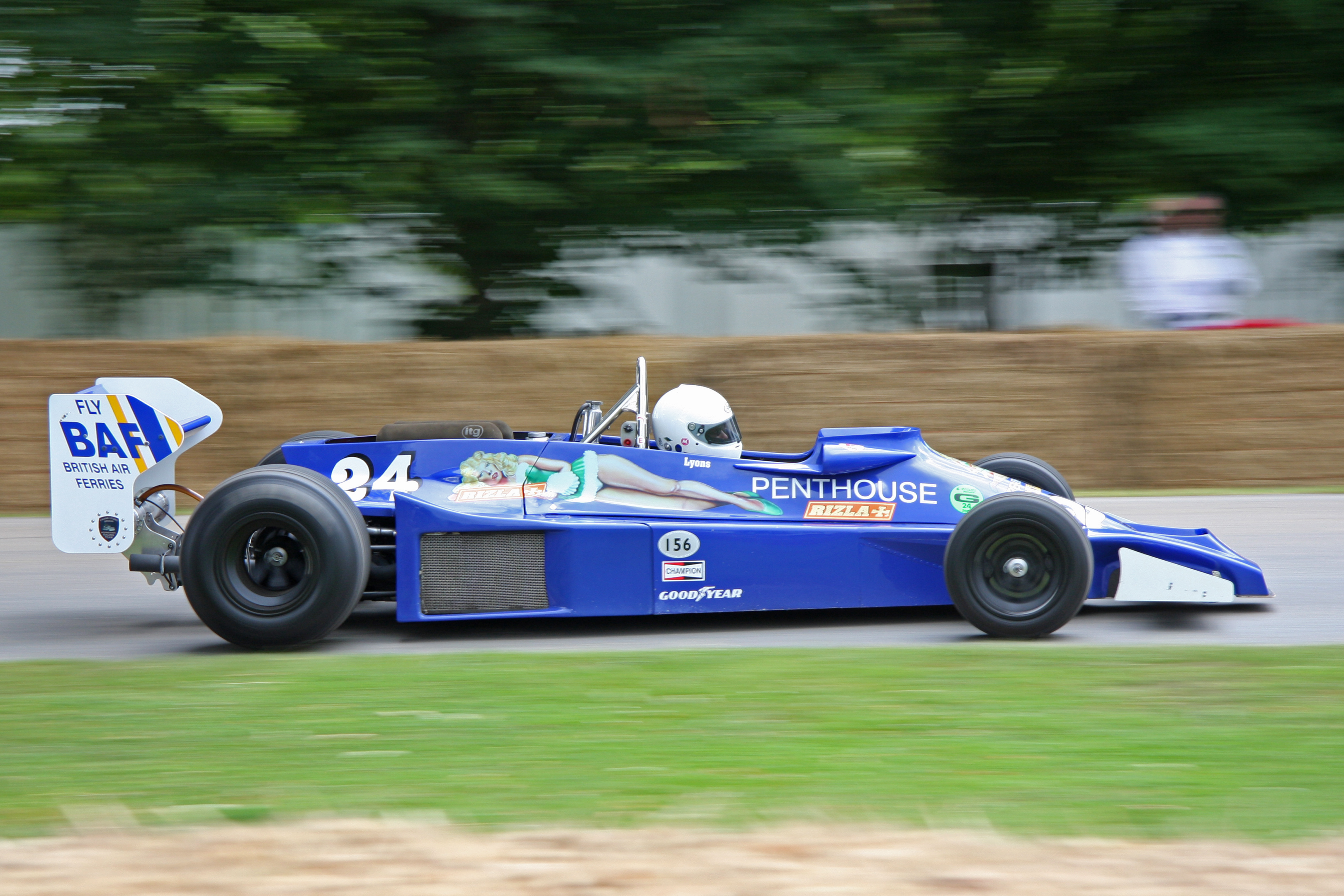 A Hesketh 308E being demonstrated at the 2008 Goodwood Festival of Speed.